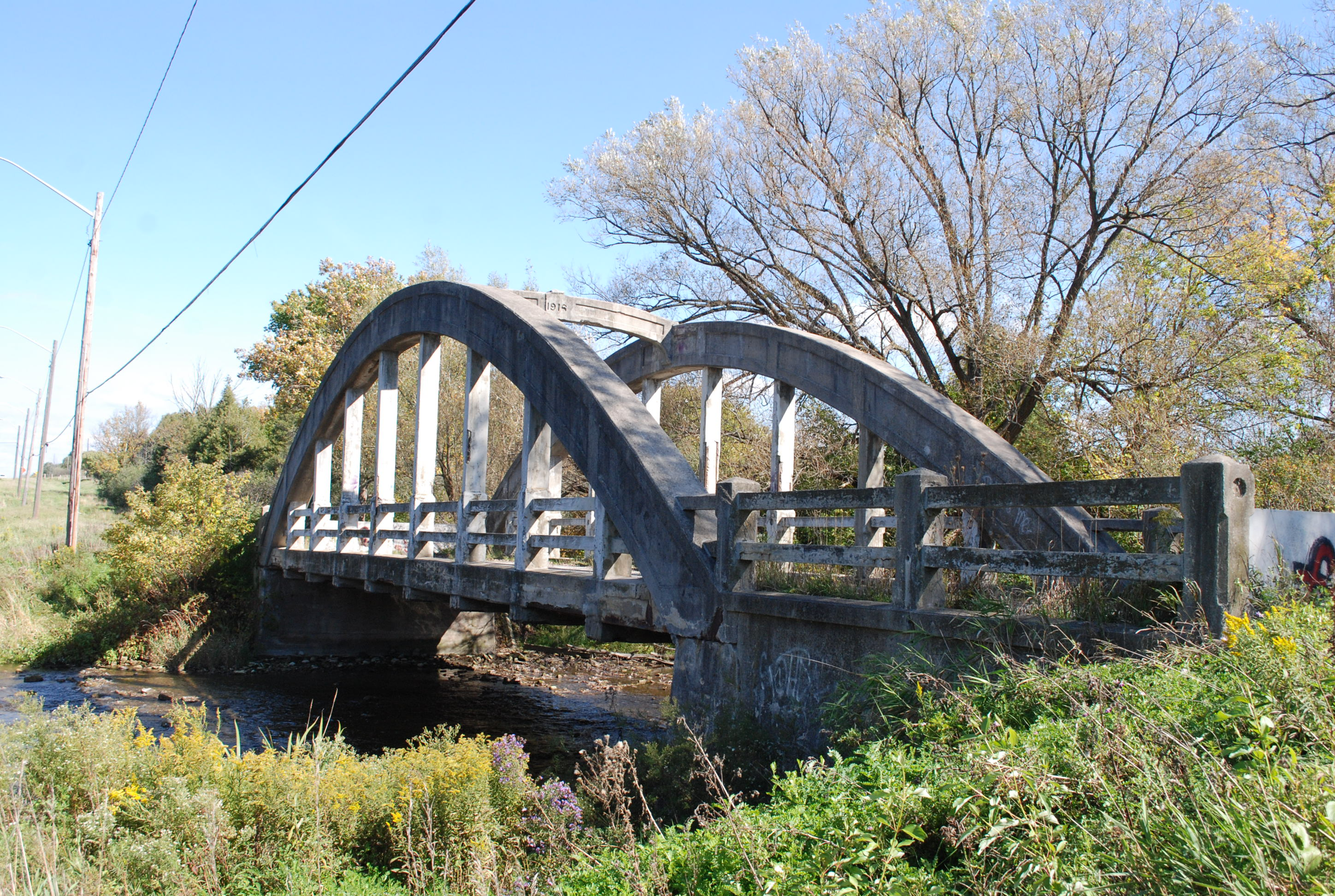 The Stone Road Bridge spans the Eramosa River on Stone Road East, between Victoria Road South and Watson Road South, in the City of Guelph. The single-span concrete bowstring arch truss bridge was constructed in 1916.